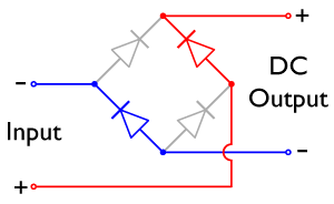 Another new diode bridge diagram